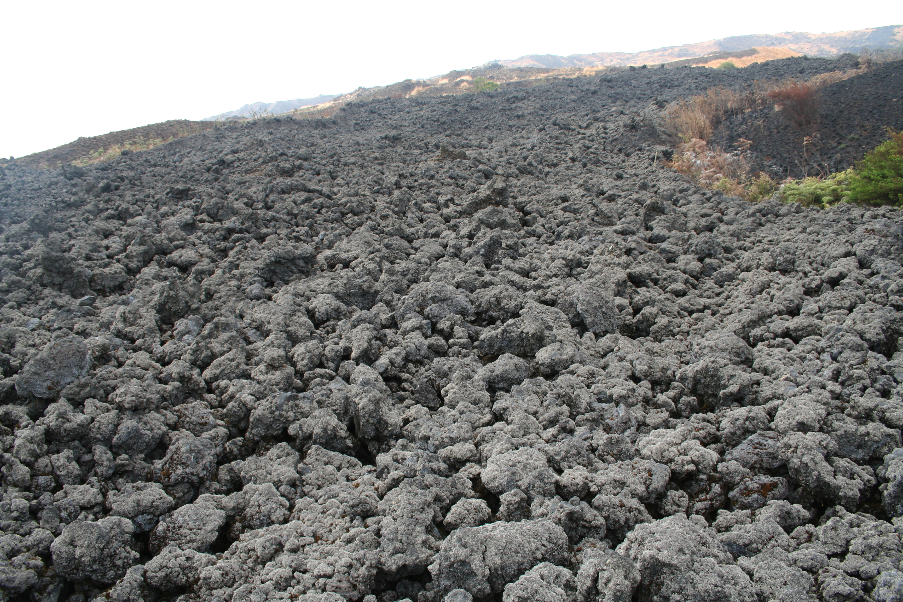 1999 lava flow, near Mann's Spring, Mt. Cameroon